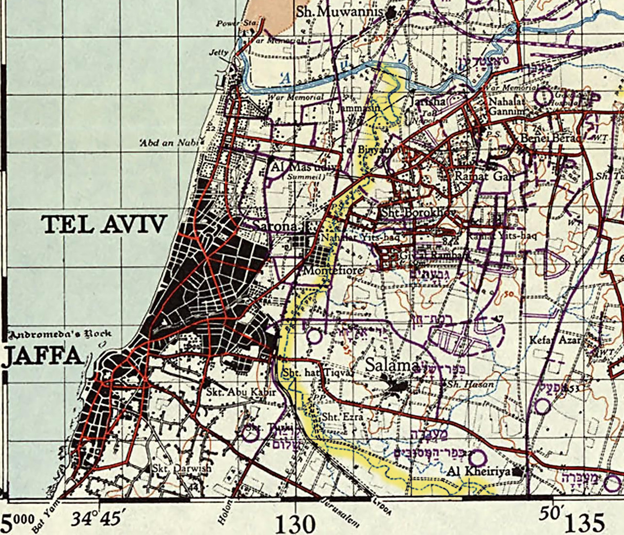 The historic course of Ayalon River in the area of Tel Aviv-Jaffa, which had since then been converted to Ayalon Highway